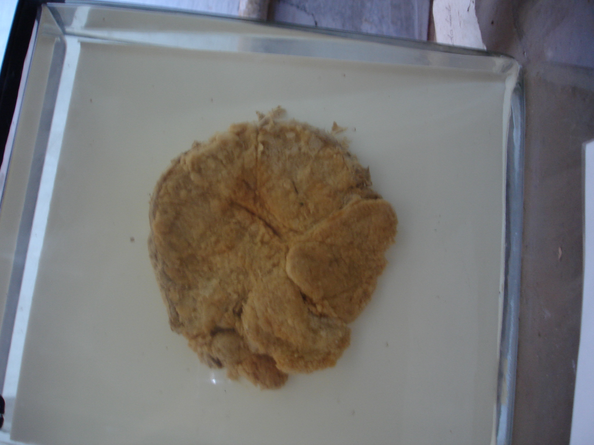 Gross anatomy specimen showing lipoma